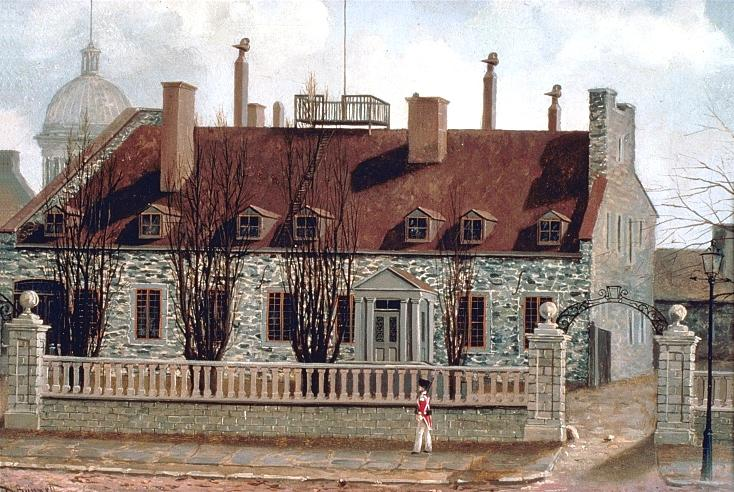 Painting, Chateau Ramesay, Montreal, 1886, Oil on canvas, 28.8 x 41 cm